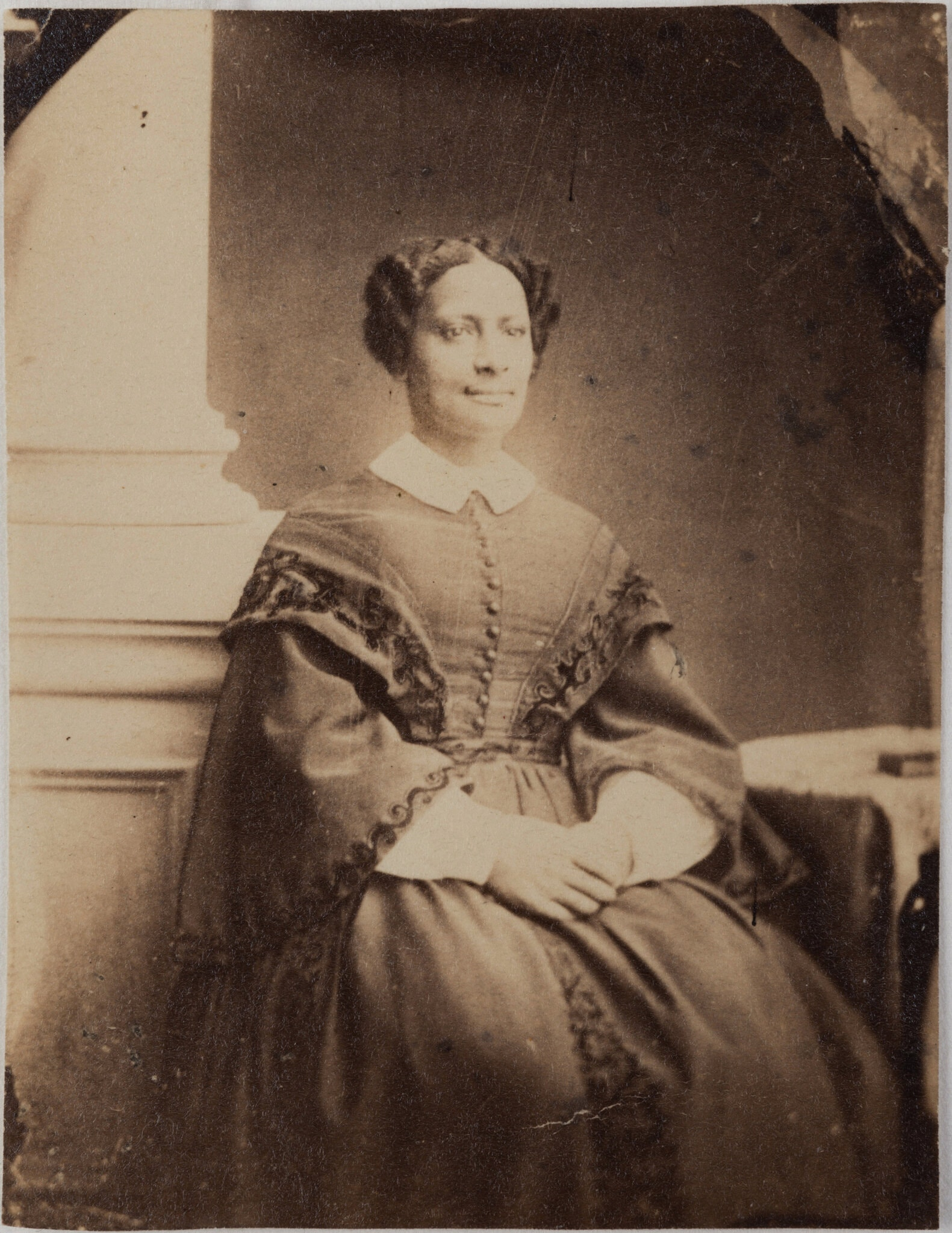 The image of American abolitionist and physician Sarah Parker Remond (1826–1894)